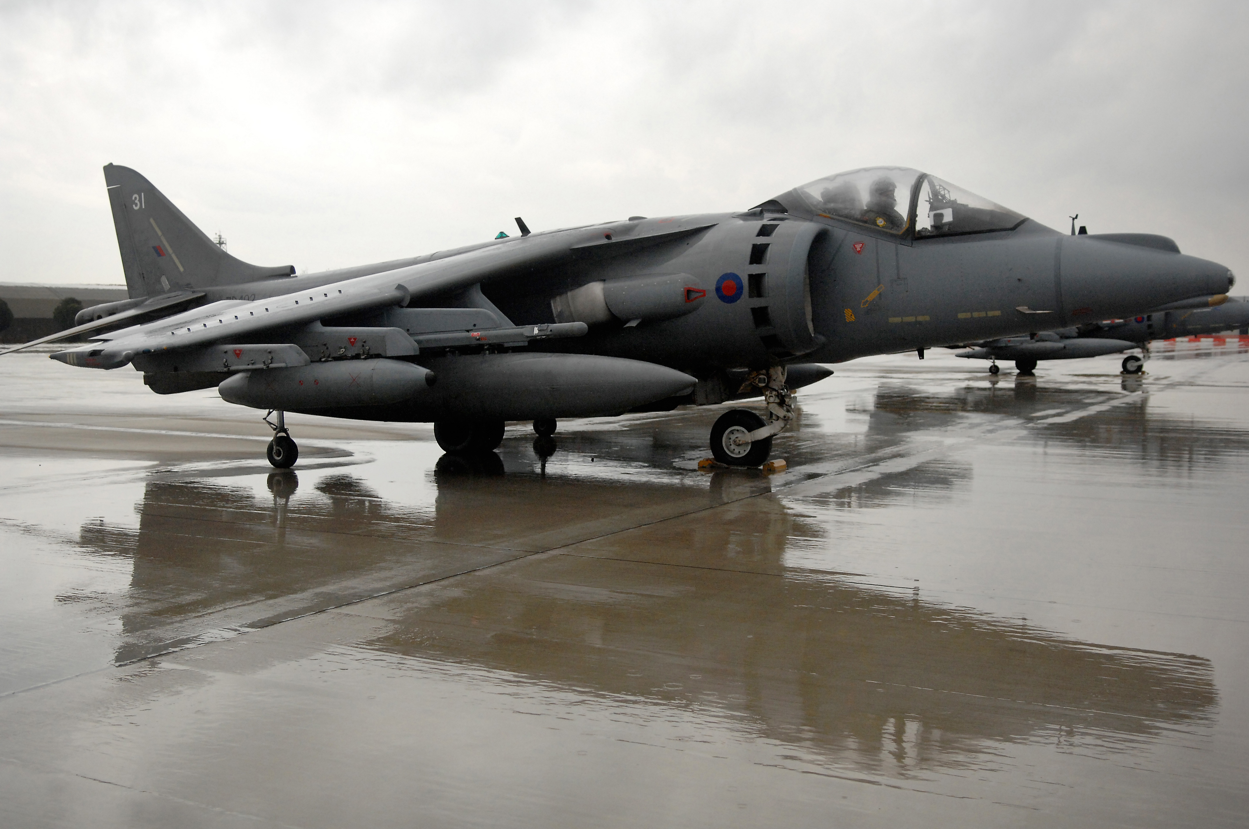 A British Aerospace Harrier GR.7 aircraft (s/n ZD402) of No.1 Squadron, Royal Air Force, prepares to depart Aviano Air Base, Italy, on 19 March 2007, after taking on fuel.